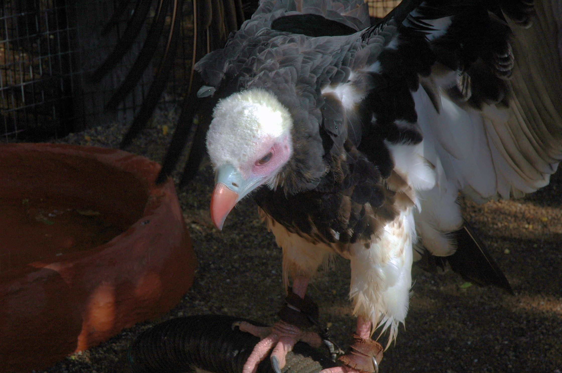 A White-headed Vulture at Las Águilas Jungle Park, Tenerife, Spain.